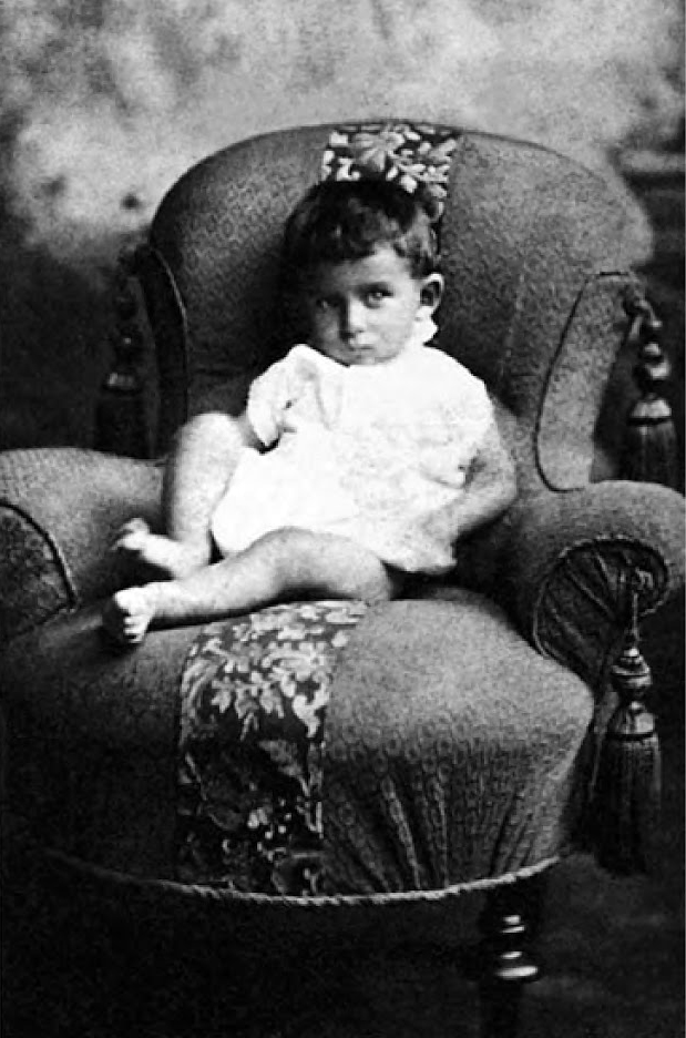 Photograph